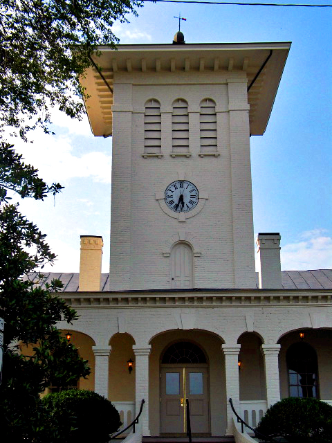 Orange County Courthouse, Orange, Virginia